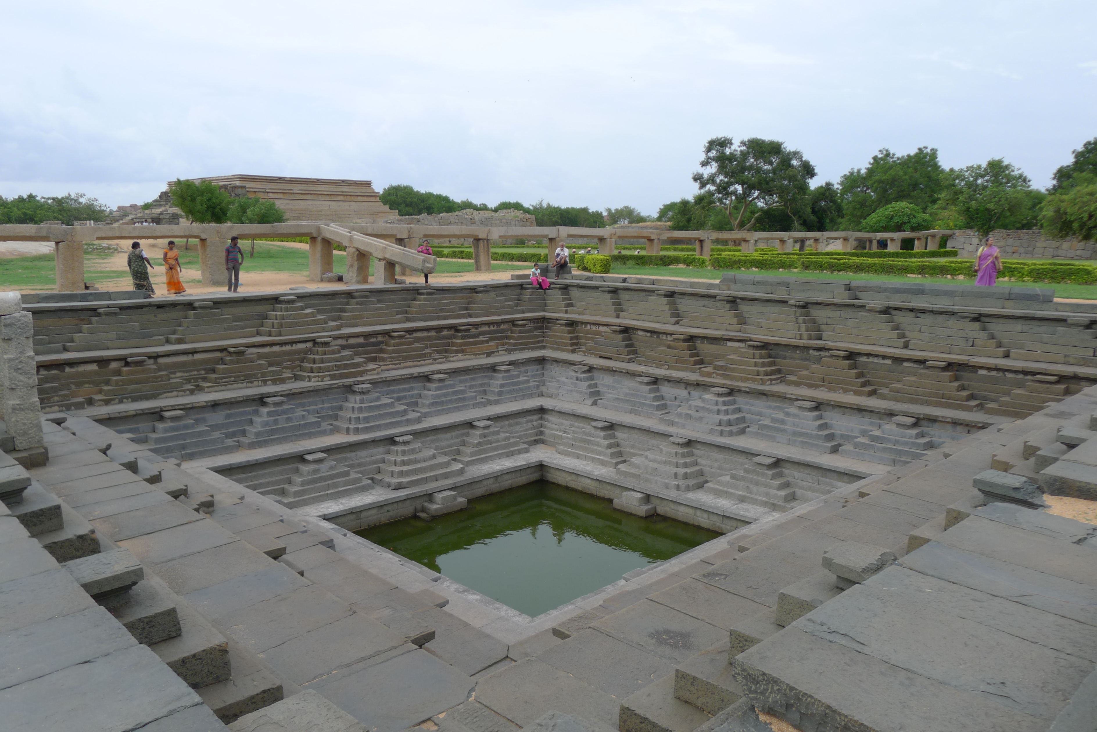 Pushkarnis of Hampi -The water tanks were connected to an extensive network of stone aqueducts and canals.